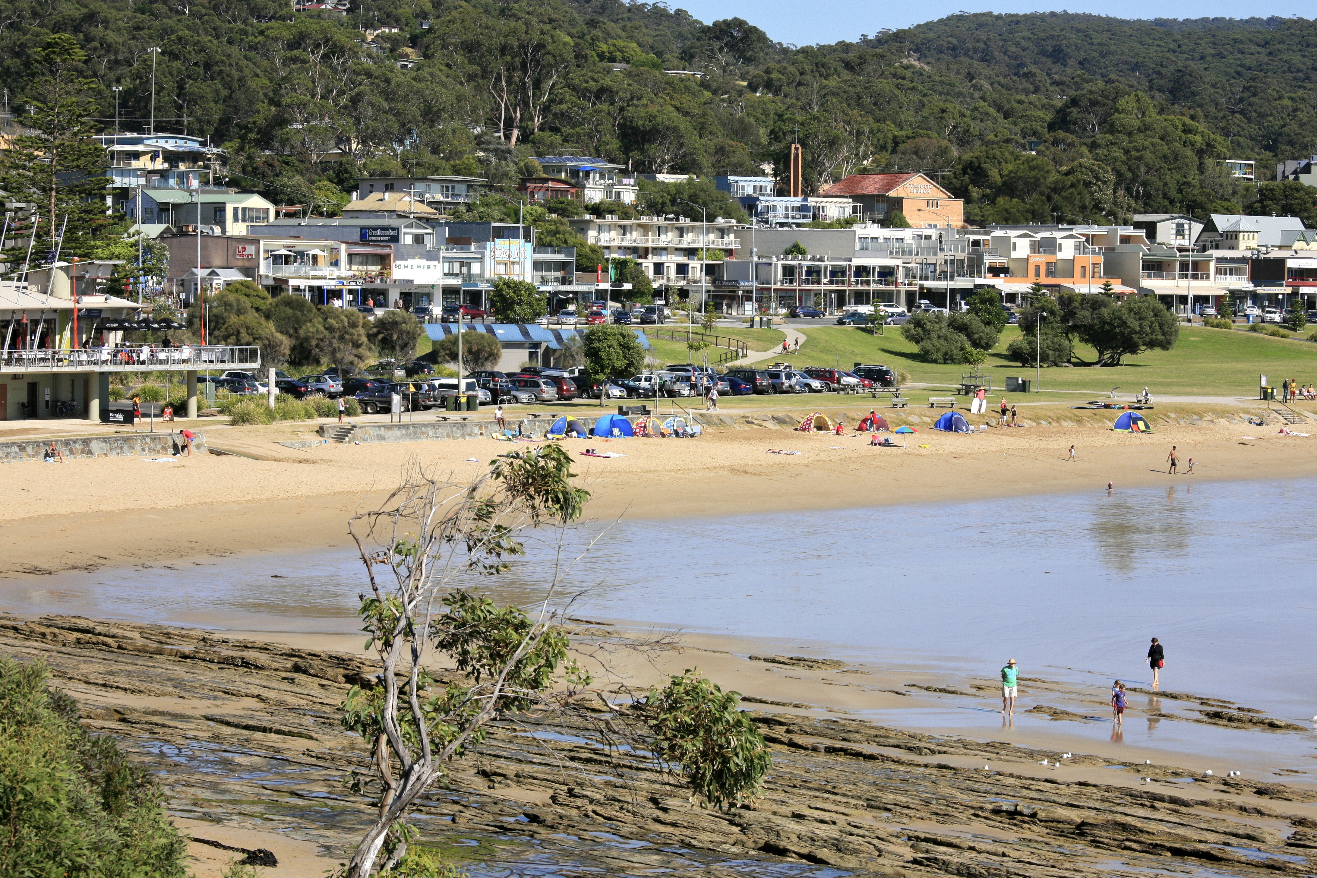 The Beach at Lorne, Victoria